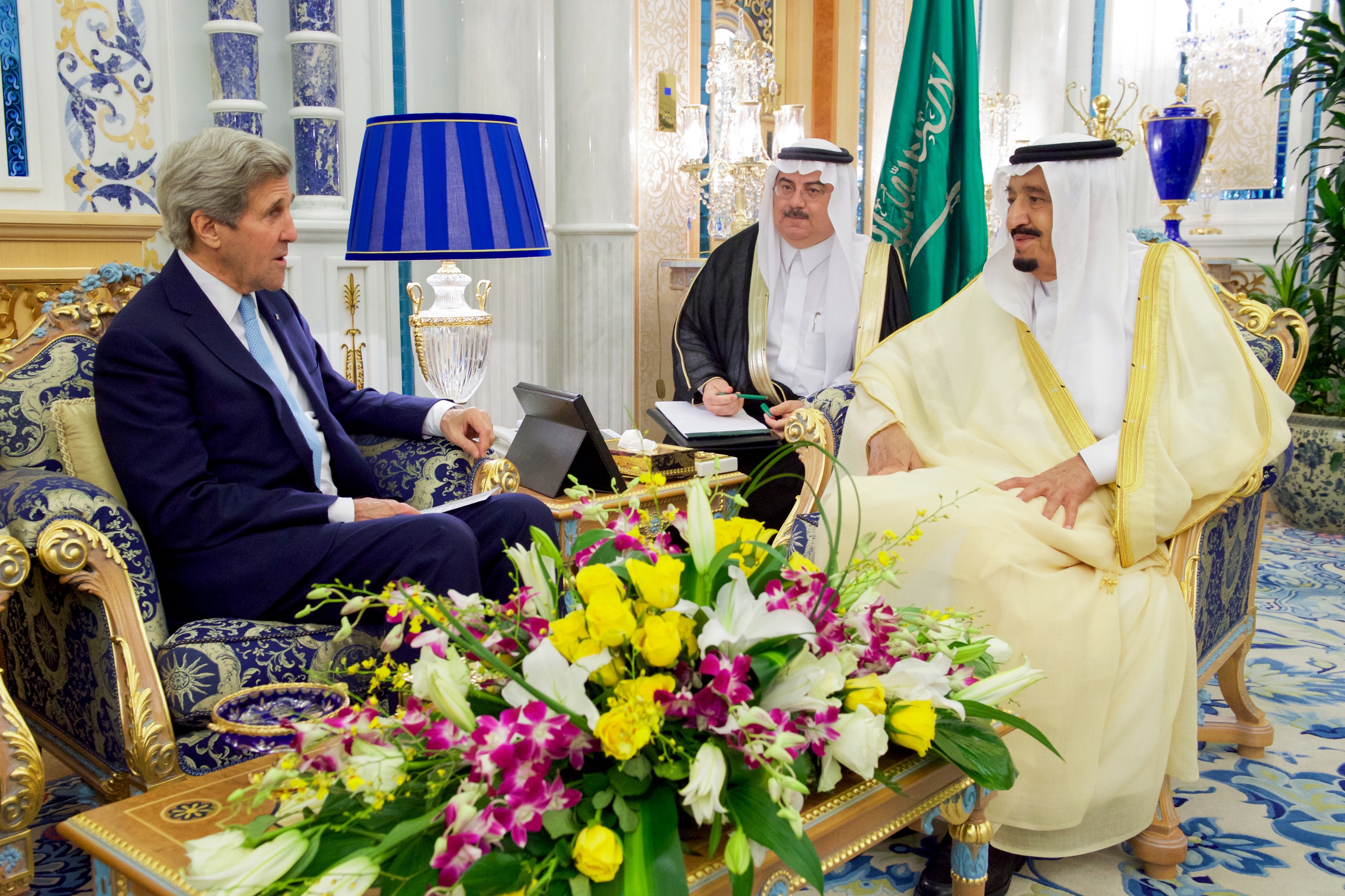 U.S. Secretary of State John Kerry sits with King Salman of Saudi Arabia on May 15, 2016, at the Royal Court in Jeddah, Saudi Arabia, before a bilateral meeting and a later conversation with Crown Prince Muhammad bin Nayef. [State Department photo/ Public Domain]